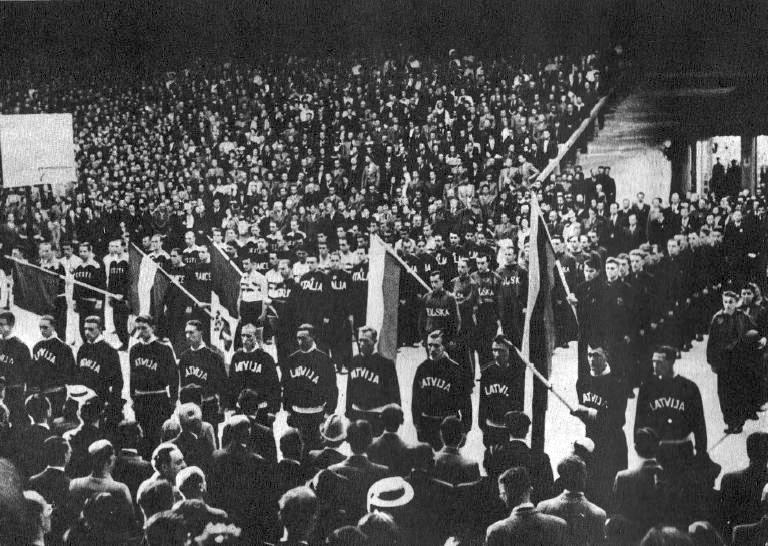 EuroBasket 1939 opening ceremony in fully-packed Kaunas Sports Hall.